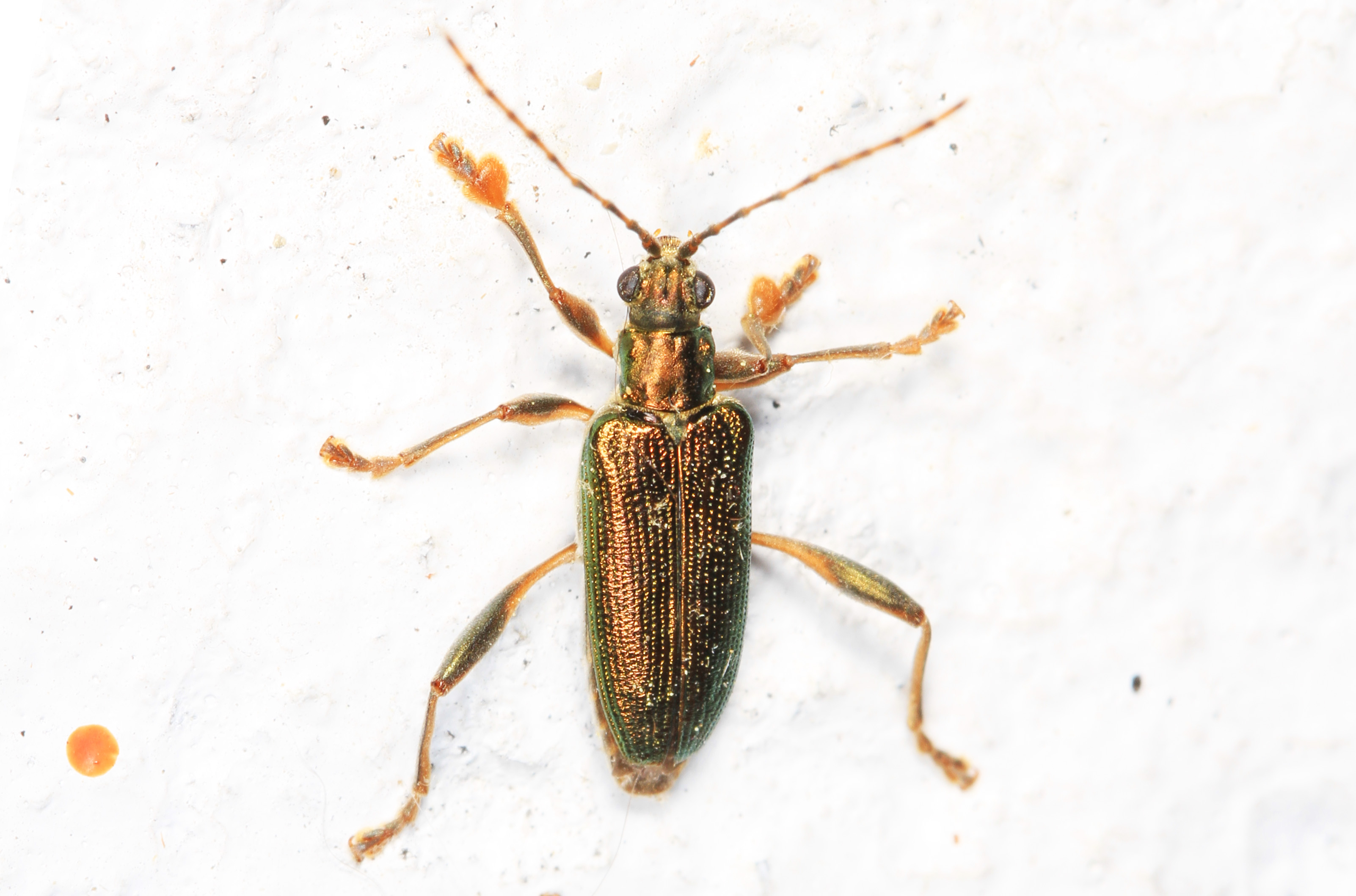 Leaf Beetle - Donacia palmata, Woodbridge, Virginia.